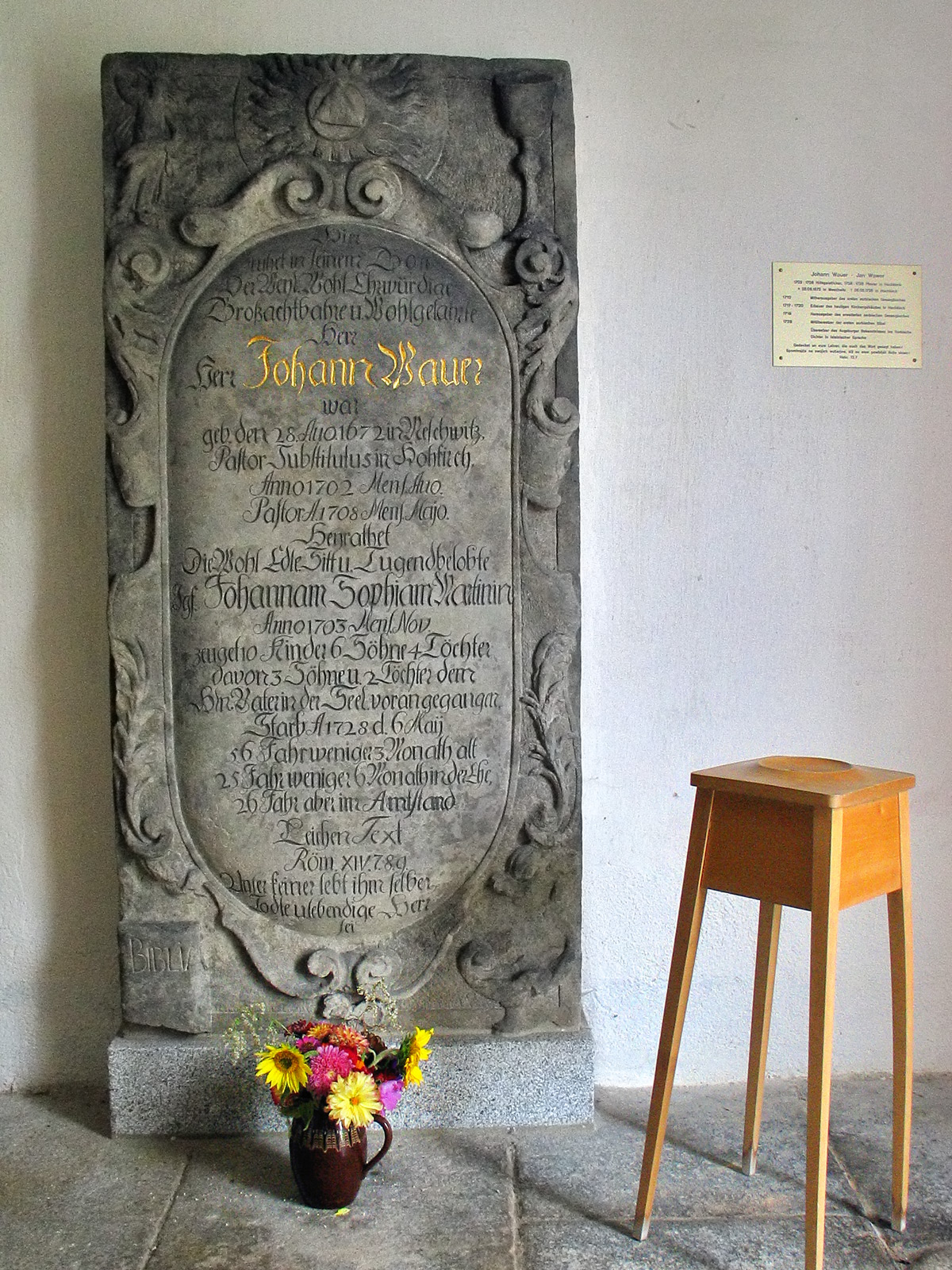 Gravestone of Johann Wauer (1672–1728) in Hochkirch in east Saxony, Germany. In 2003 the stone was restored and moved into the church of Hochkirch. Hornjoserbsce: Narowna plata fararja Jana Wawerja (1672–1728) w Bukecach. Kamjeń bu w lěće 2003 renowowany a w Bukečanskej cyrkwi nastajeny.